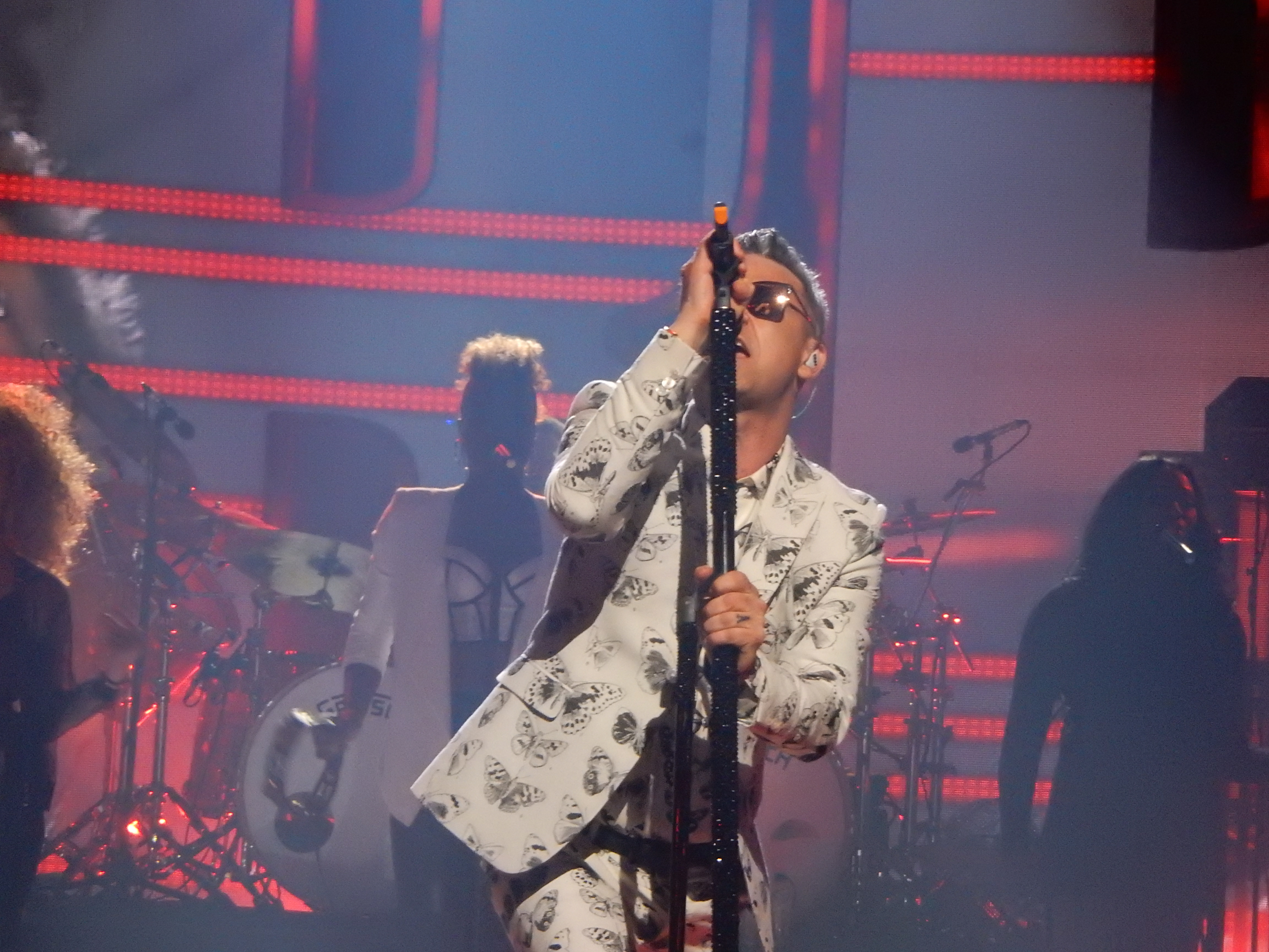 Robbie Williams, Roundhouse, London (Apple Music Festival)